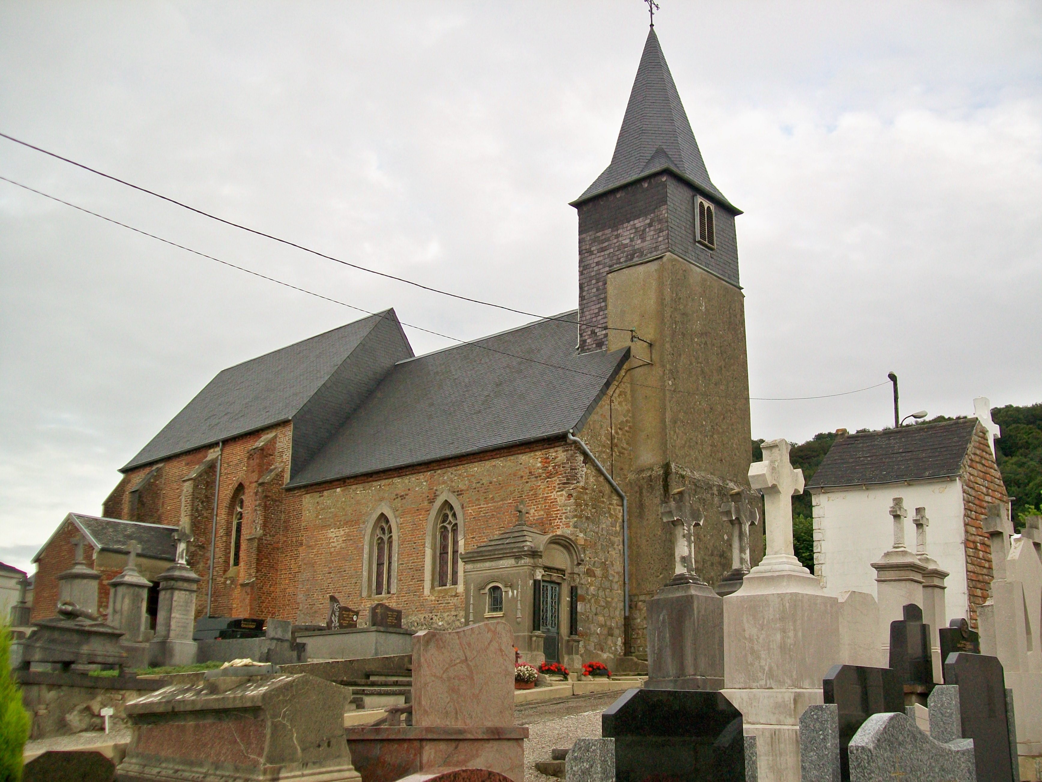 The church of St.Pierre, dating from the seventeenth century, in Longfossé, Nord-Pas-de-Calais, France.